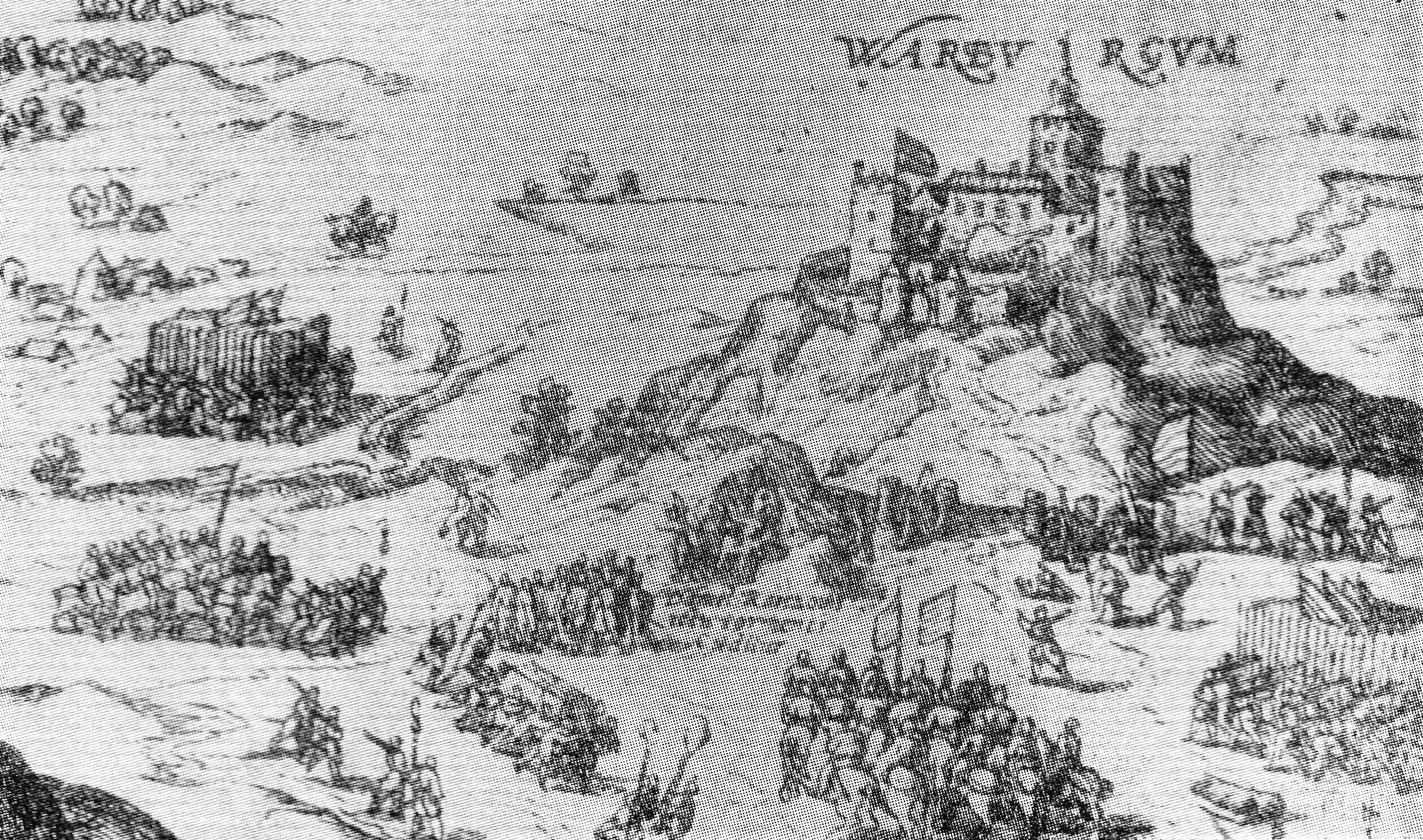 Capitulation of Varberg during the Northern Seven Years' War. View from the north.